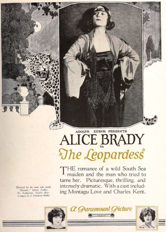 Advertisement for the American romantic drama film The Leopardess (1923) with Alice Brady, page 15 of an insert of upcoming Paramount releases in 1923, from the collection of loose pages from the 1923 Exhibitors Trade Review [820 of 1164].